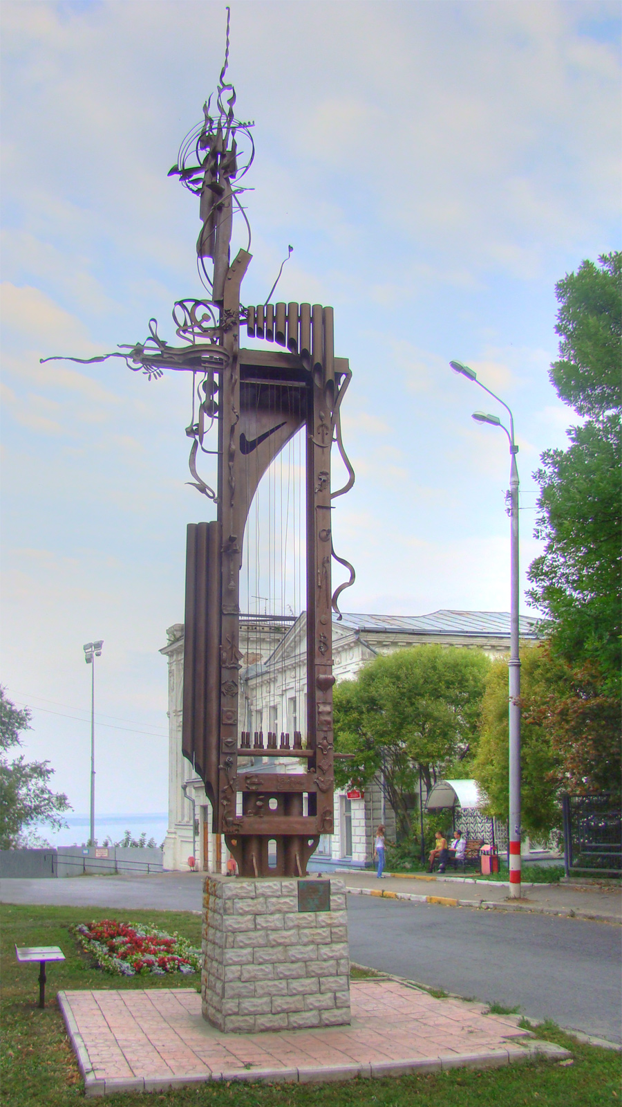 Wind organ (musical), monument, Ulyanovsk